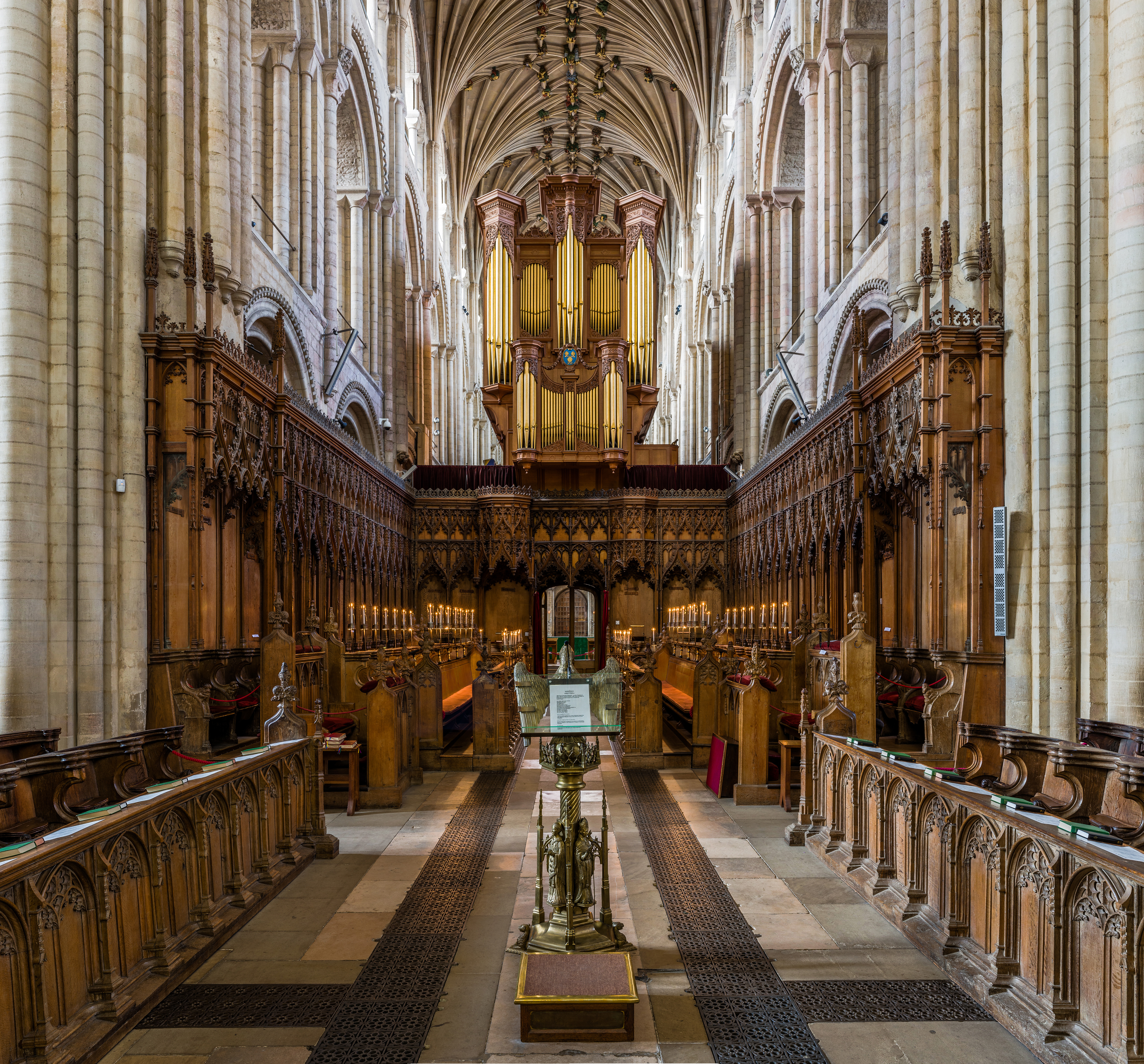 The choir of Norwich Cathedral in Norfolk, England.